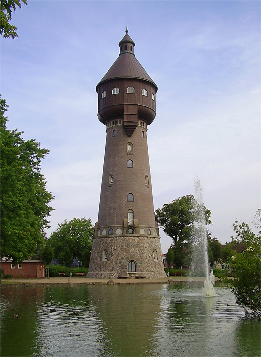 Watertower, Heide/Holstein